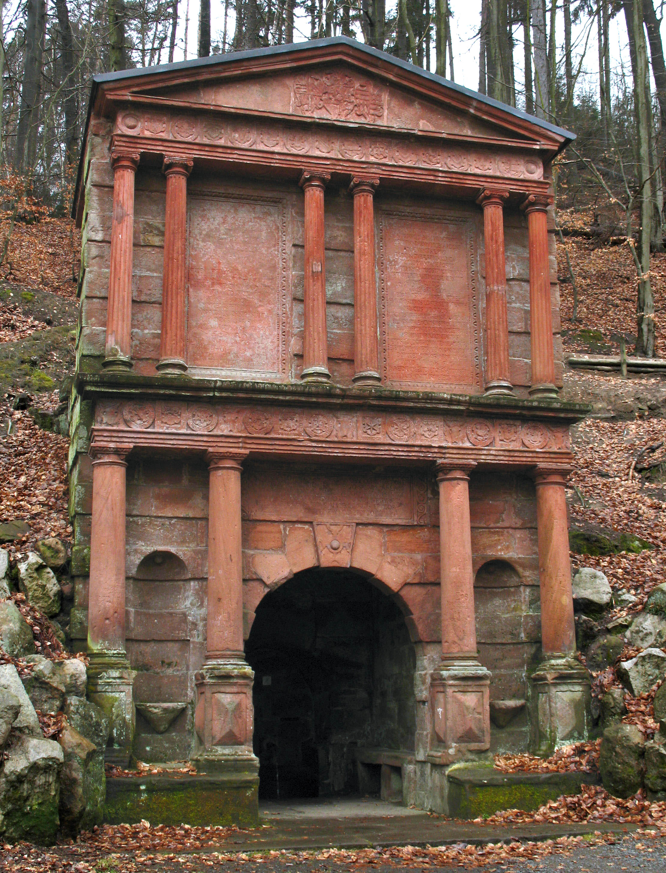 Well in Marburg-Schröck in Hesse, Germany